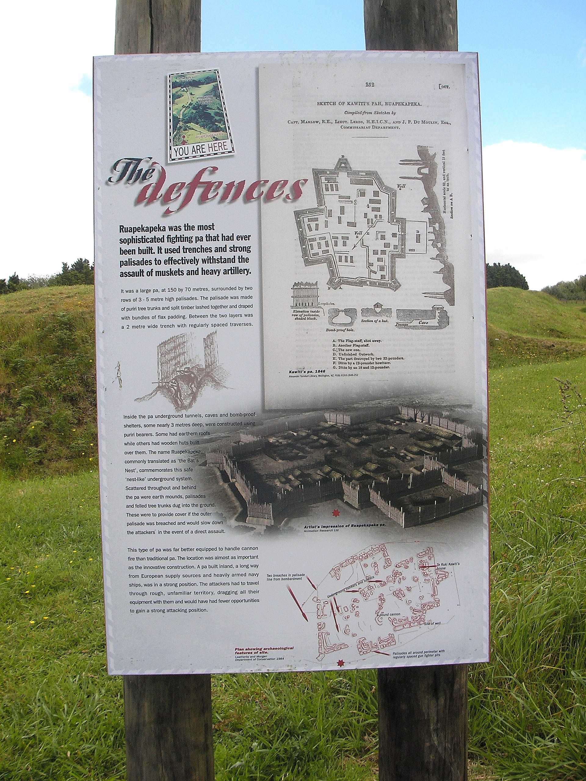 Ruapekapeka, a sign guide to the pa's fortifications, standing in front of the fortifications. Photograph taken by the author, 2006